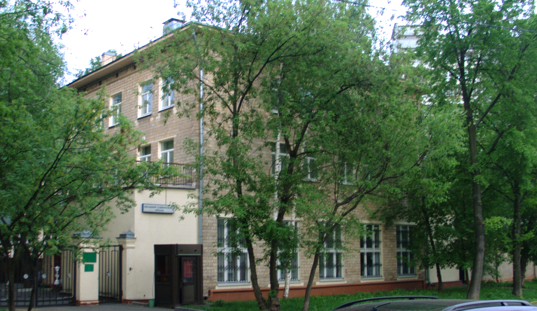 Building of the Embassy of Mauritania in Moscow (Bolshoy Savvinskiy side-street 21)